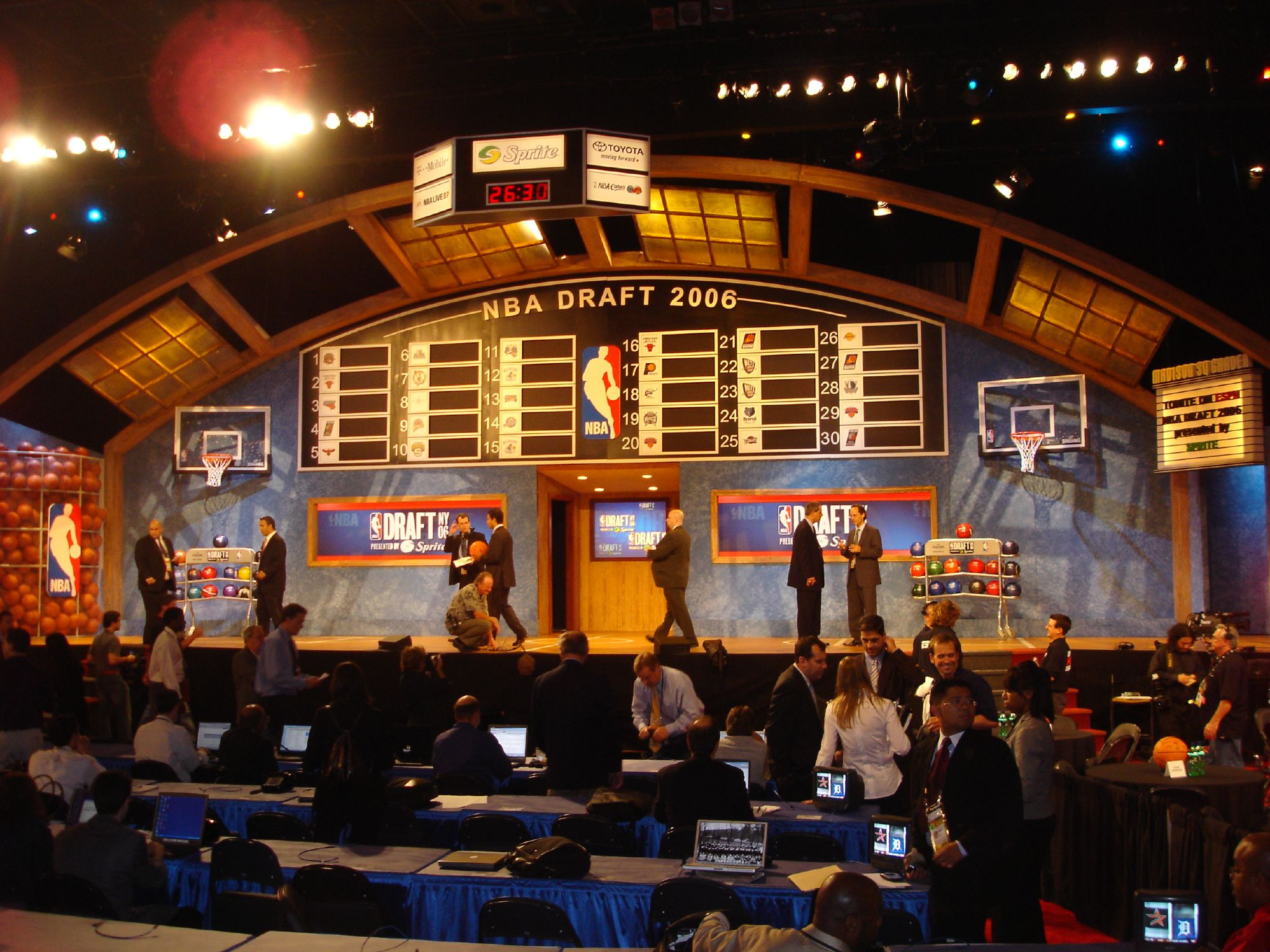 The draft board and stage pre draft.